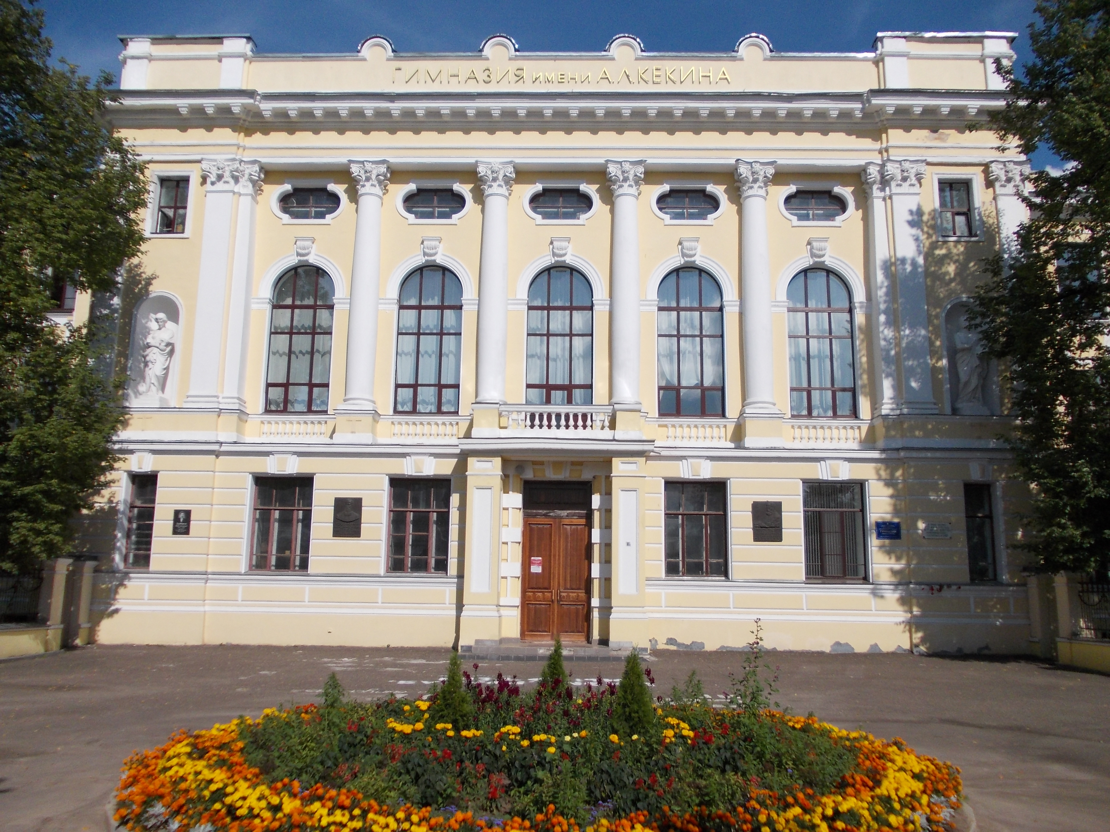 Kekin high school in Rostov, Russia.